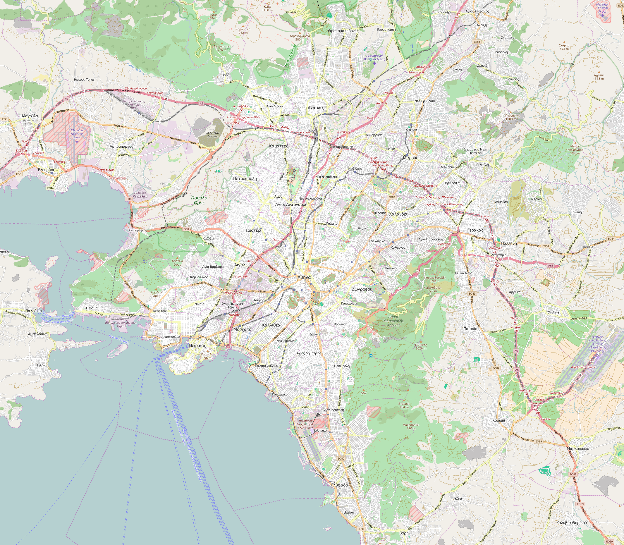 OpenStreetMap - Map of Athens